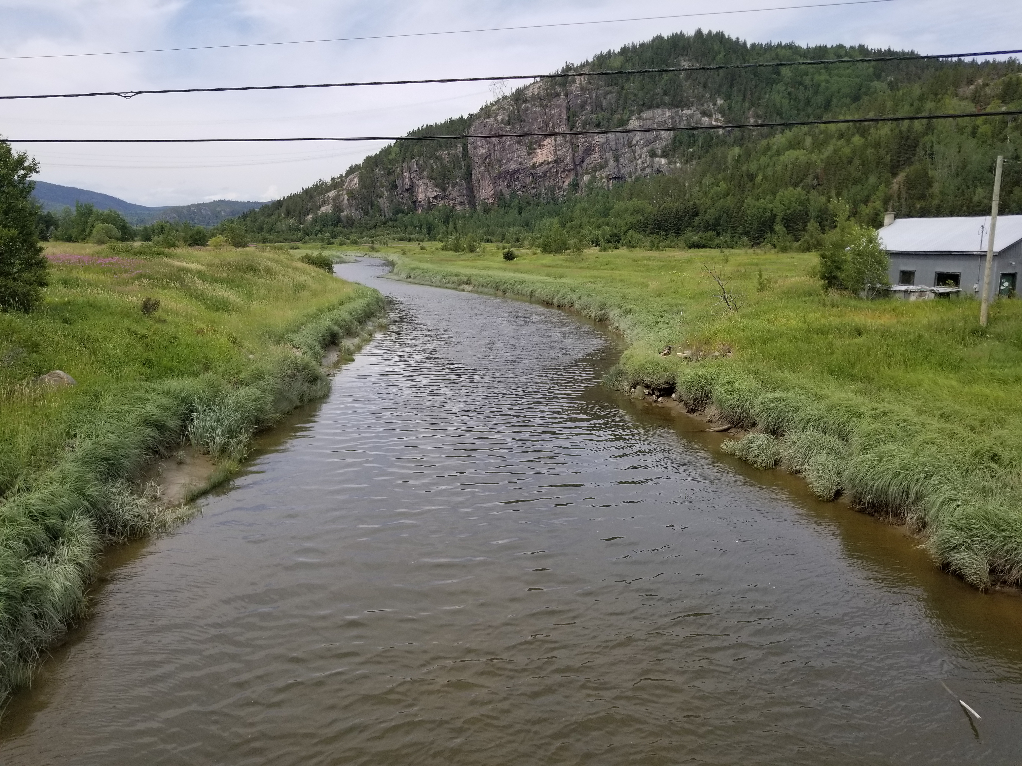 View upstream of the Cours des Petites Bergeronnes River from the Highway 138 bridge.